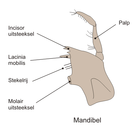 General layout of amphipod mandible (dutch version)